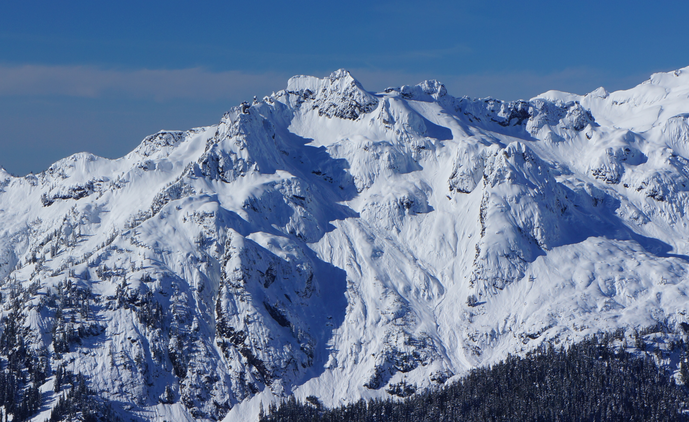 Electric Butte in winter white seen from Oakes Peak. North Cascades of WA